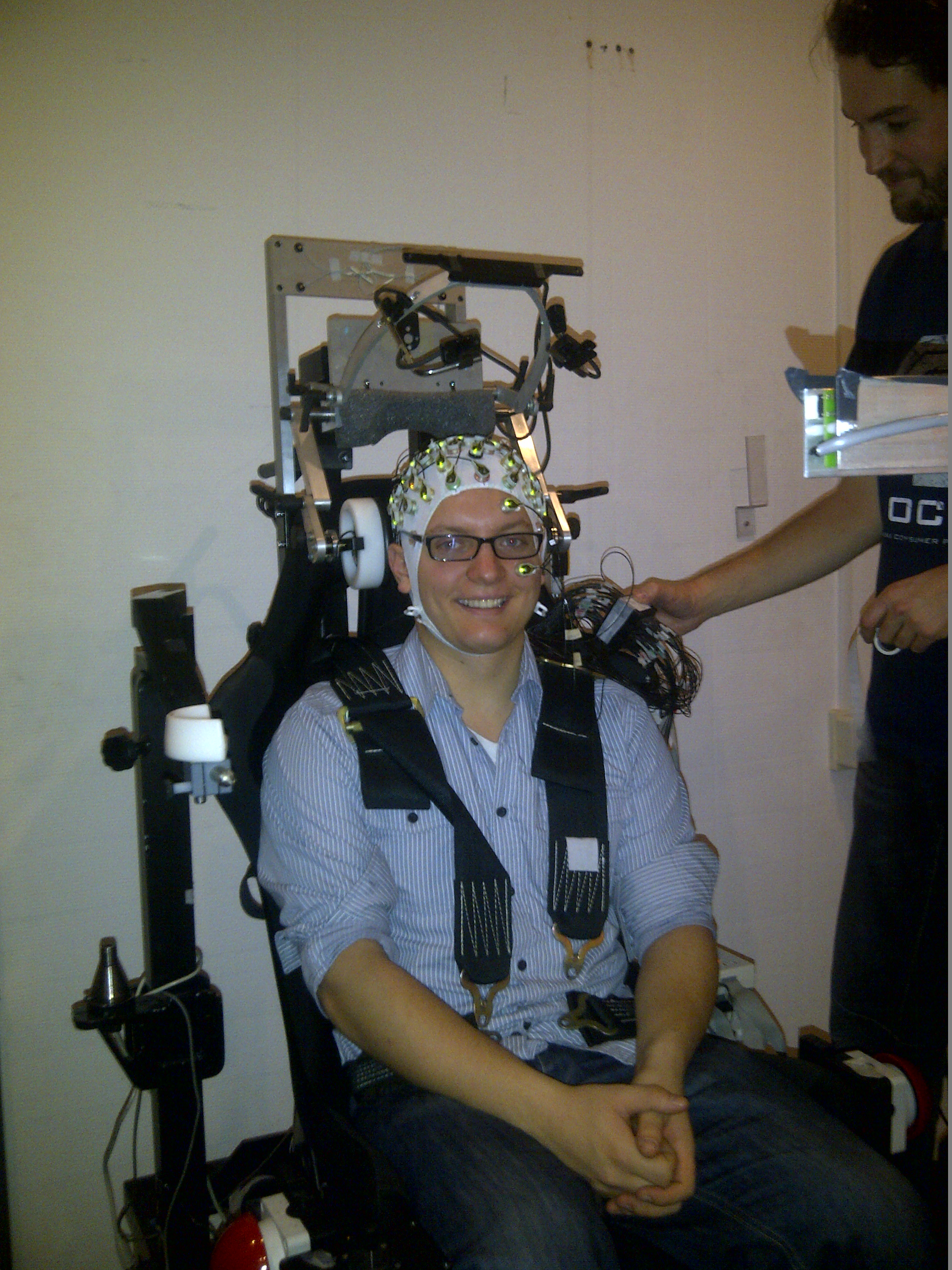 An experimental subject is partaking in an EEG experiment.